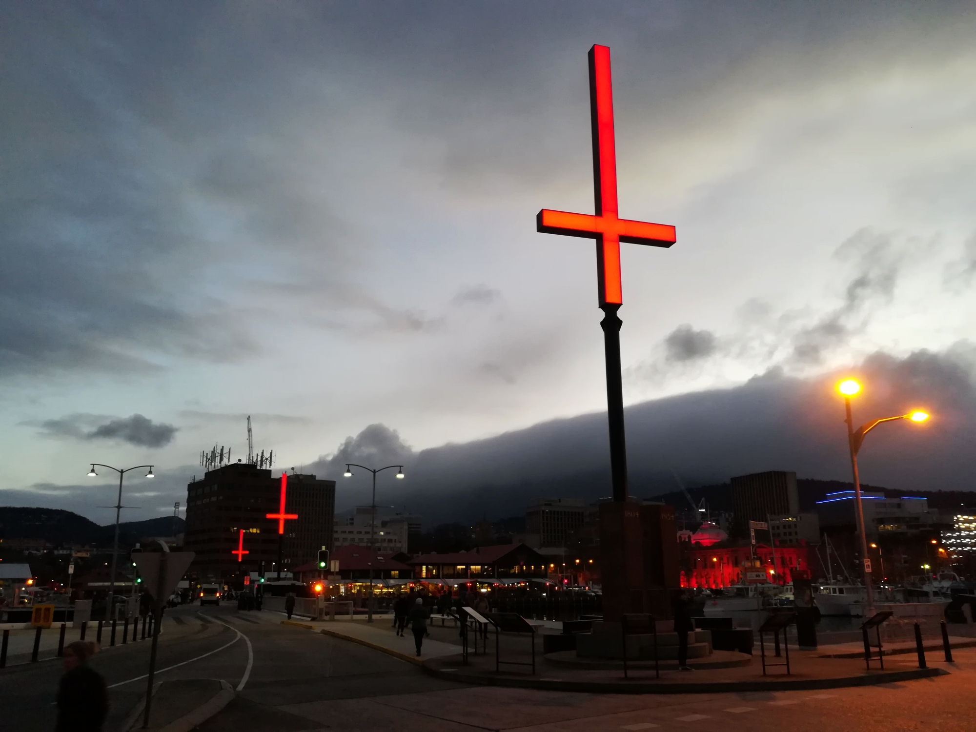 Inverted crosses on display around Hobart, Tasmania during the Dark MOFO festival, organised by the Museum of Old and New Art (MONA).